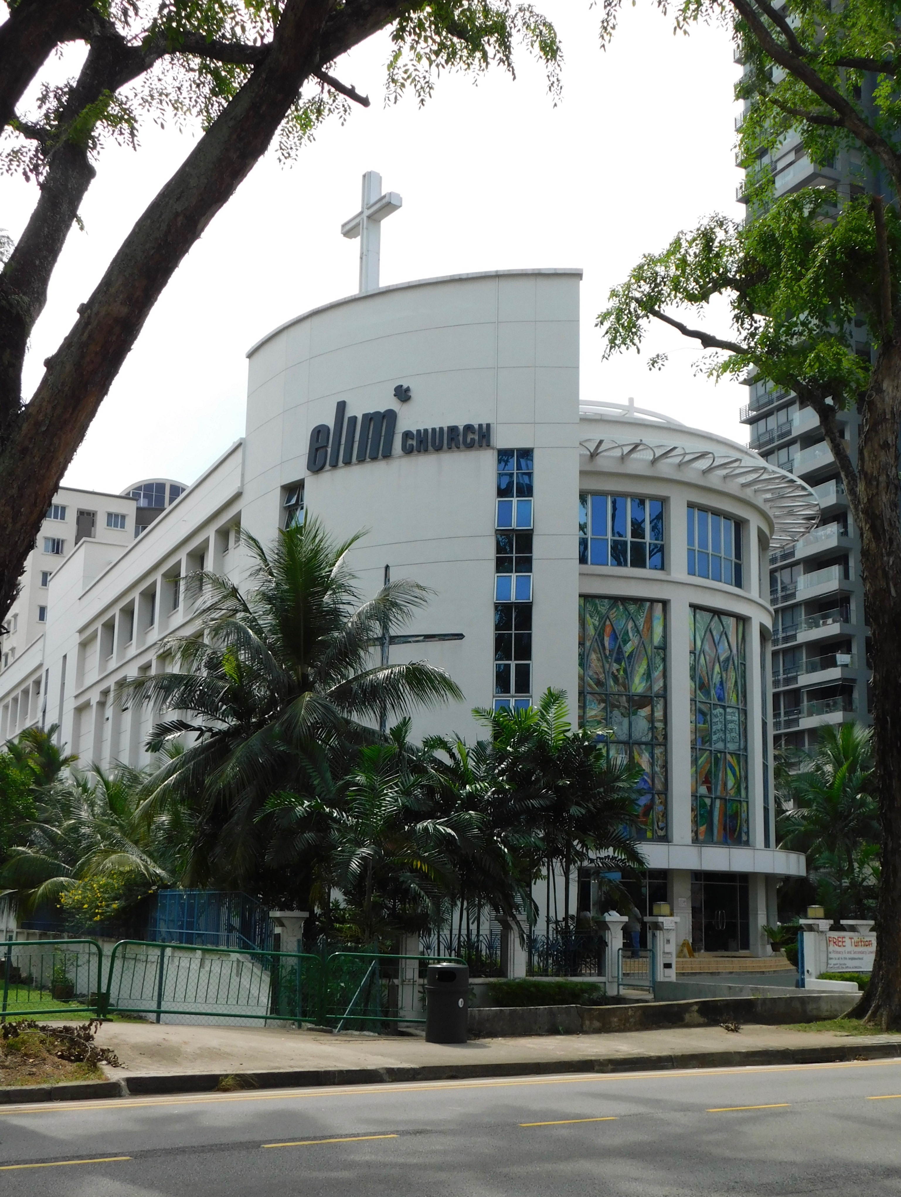 Elim Church (Singapore) is one of the first Pentecostal churches to be established in Singapore. Founded in 1928, it is the first and oldest Assemblies of God church in the city-state.